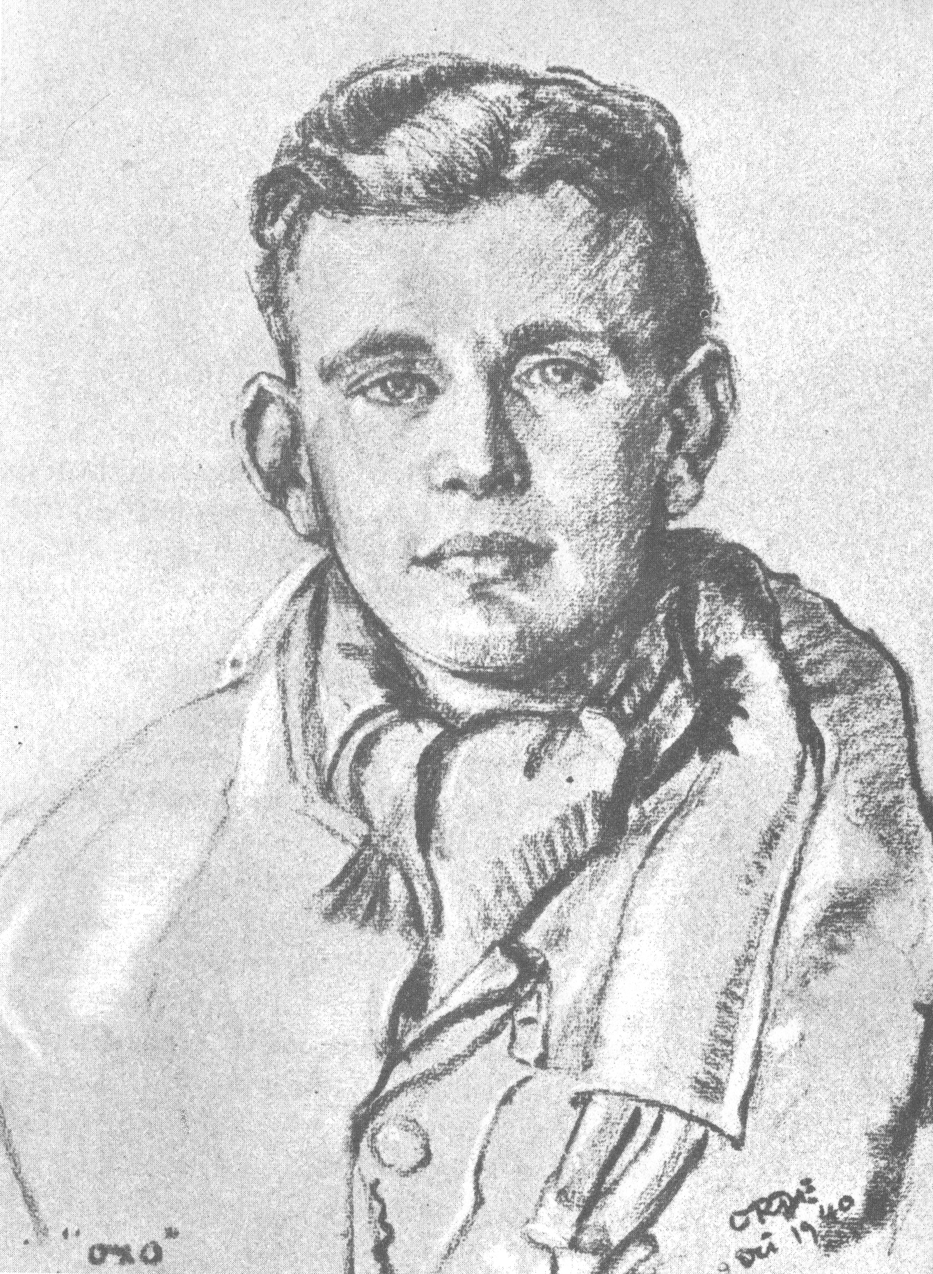 Bobby Oxsping portrait by Cuthbert Orde, 1940